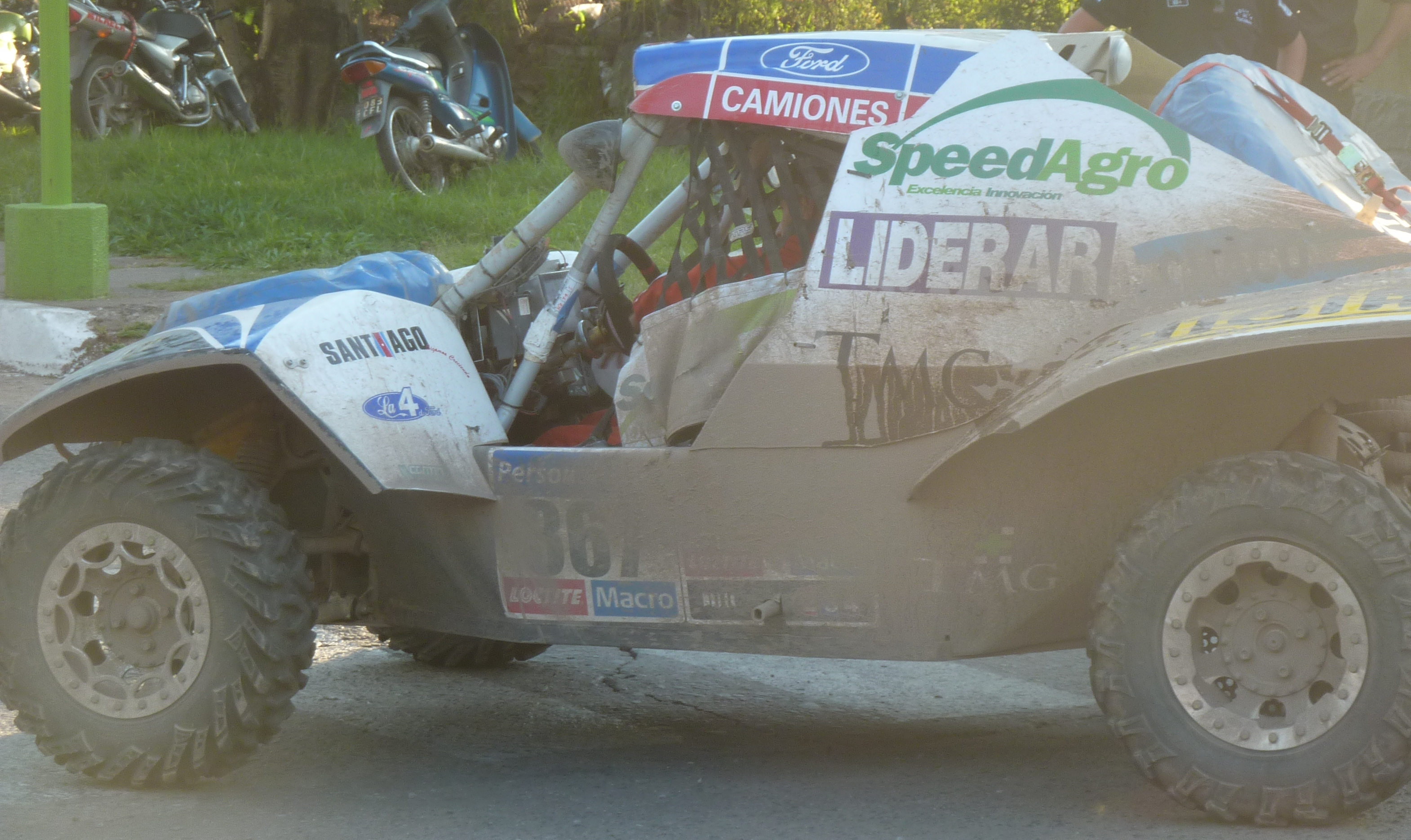 A McRae 4X2 during the 2011 Dakar Rally. The photo was taken after the 2nd stage in San Miguel de Tucumán. The driver of the car is Juan Manuel Pato Silva.